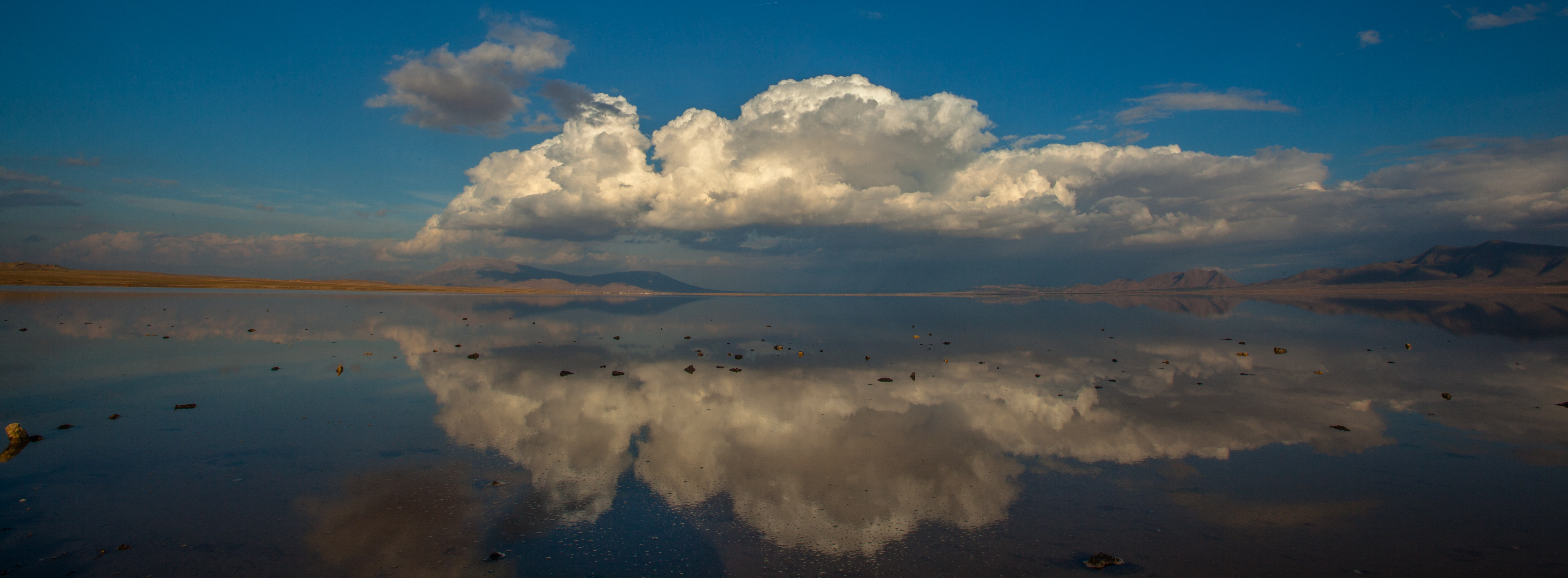 Sebkha (salt lakes) Oum El Bouaghi, Algeria